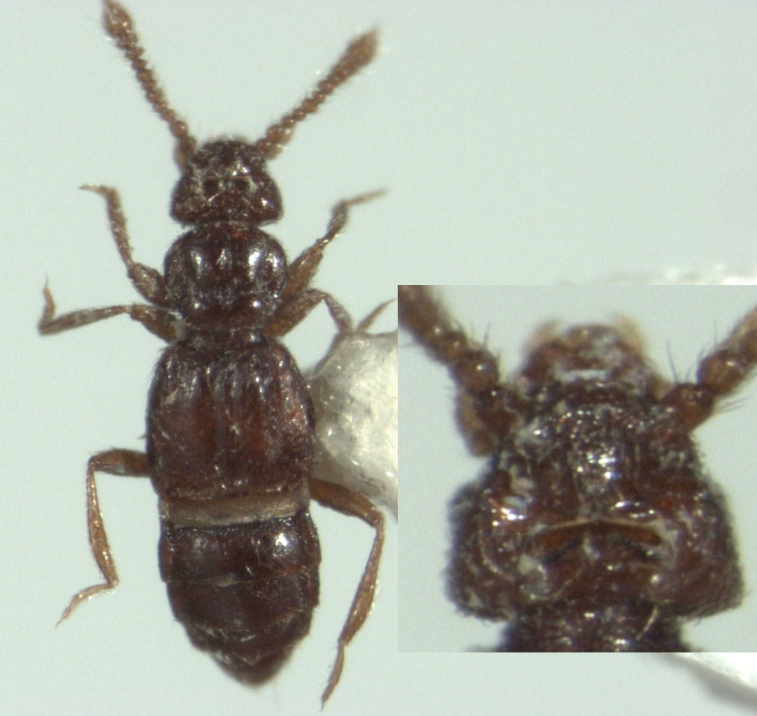 adult Eleusomatus allocephalus